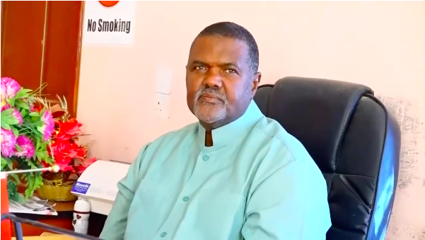 Current Governor of AWDAL Region